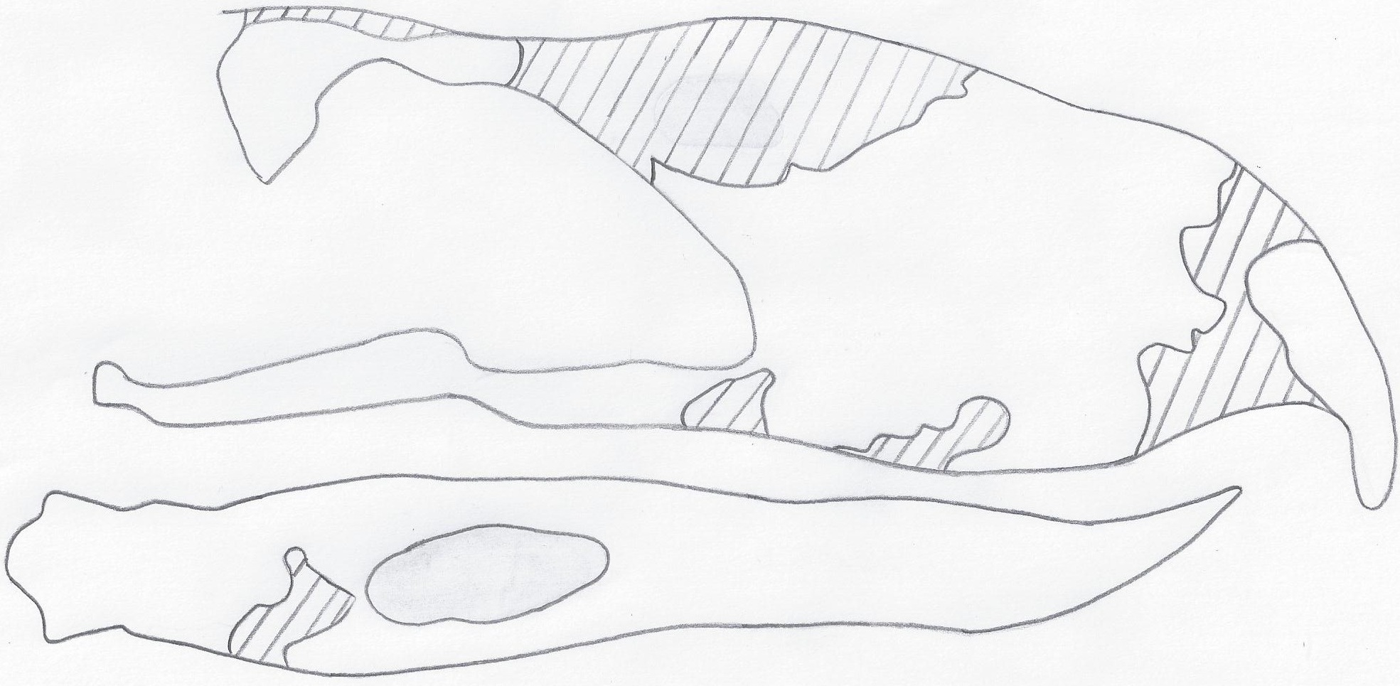 holotype of Andrewsornis, based on an image from "A new phororhacoid bird from the Deseado formation of Patagonia"; shaded parts are missing in the fossil